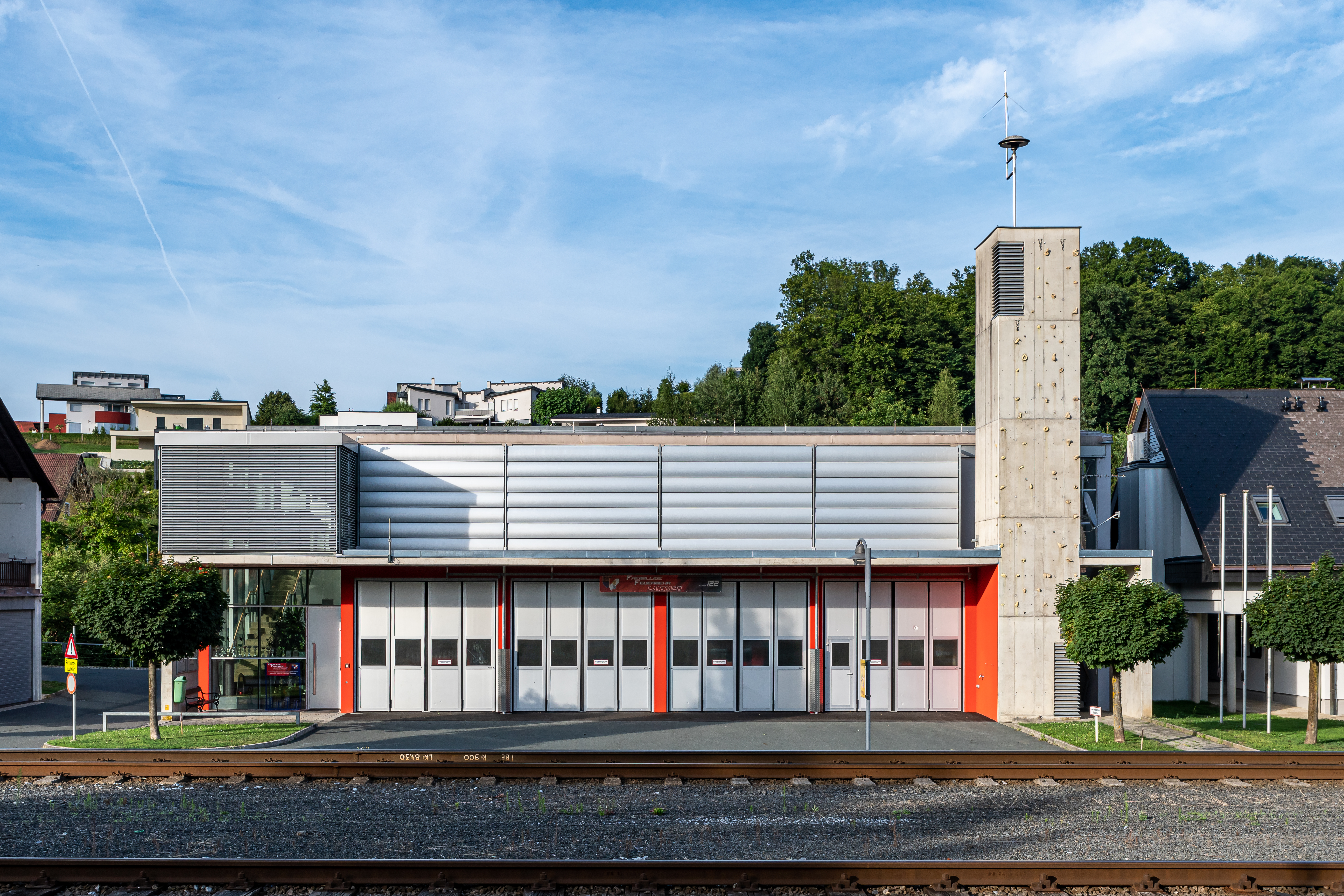 The fire station of the voluntary fire brigade of Lannach (Styria) is located in Schwarzwiesenstraße.